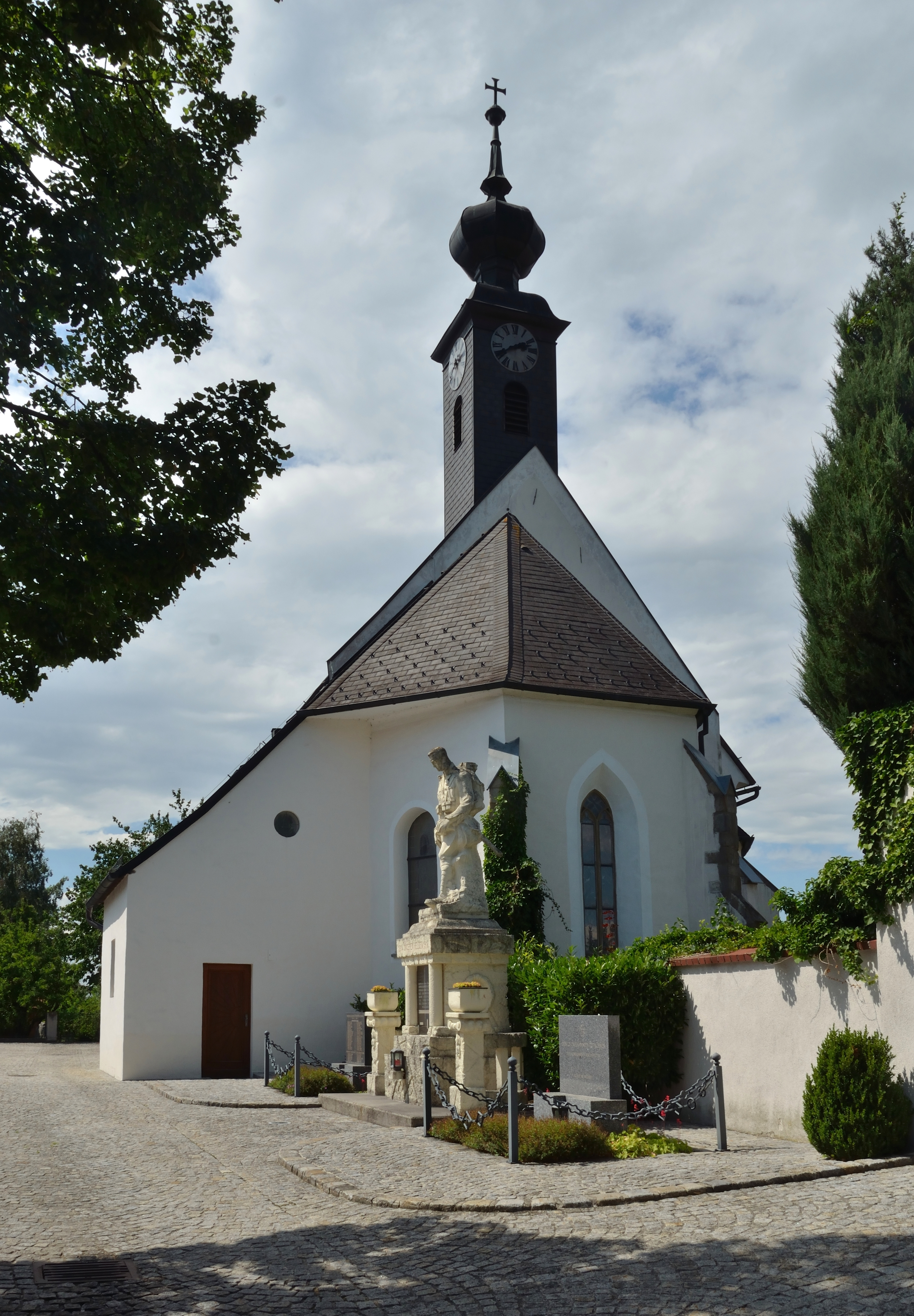 Roman catholic church Saint Vitus and the surrounding cemetery in Kirchstetten, Lower Austria, are protected as a cultural heritage monument. In the front the war memorial.